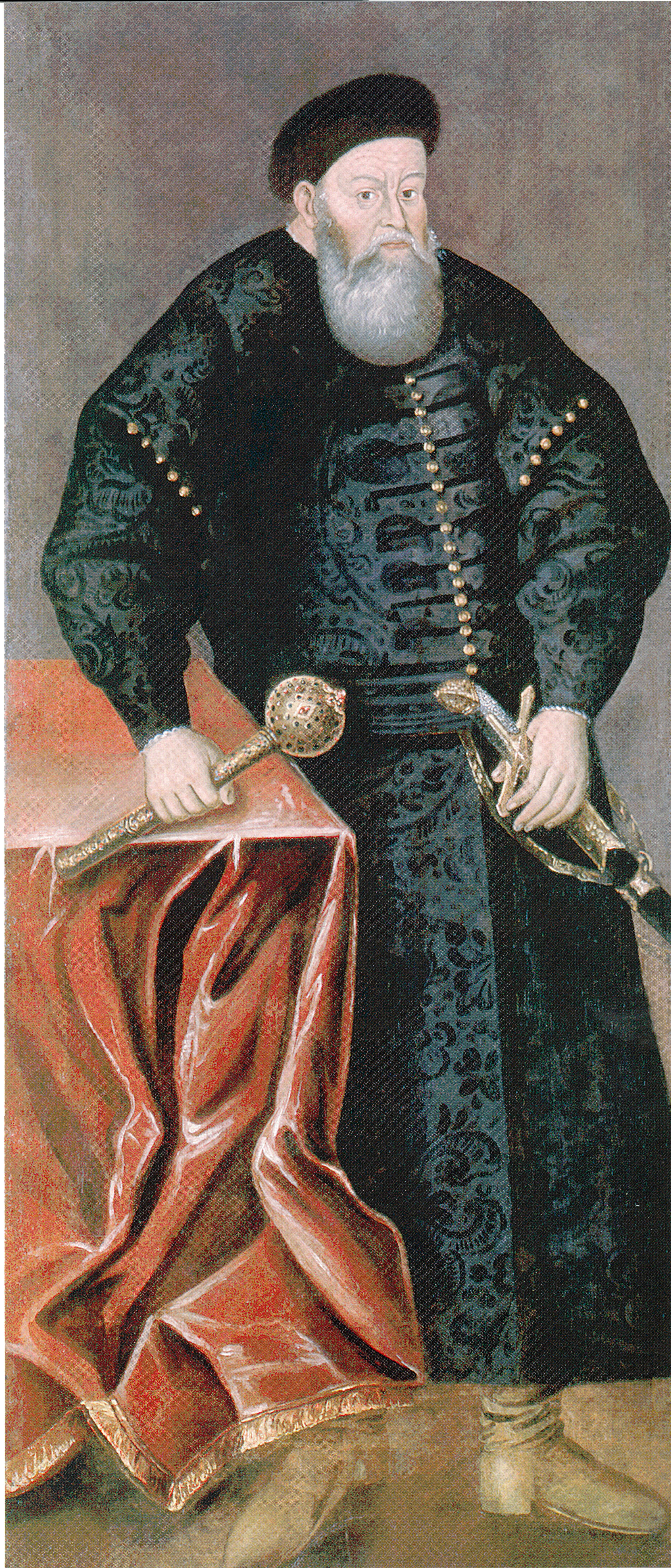 Konstanty Ostrogski.